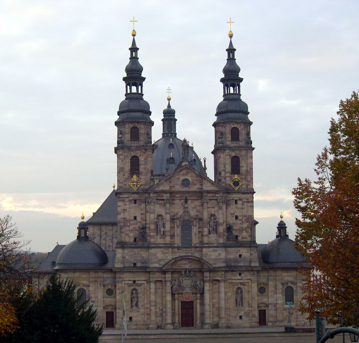 Fulga is cradle of Lutheranism. Photo by Anton Obolensky, 2005